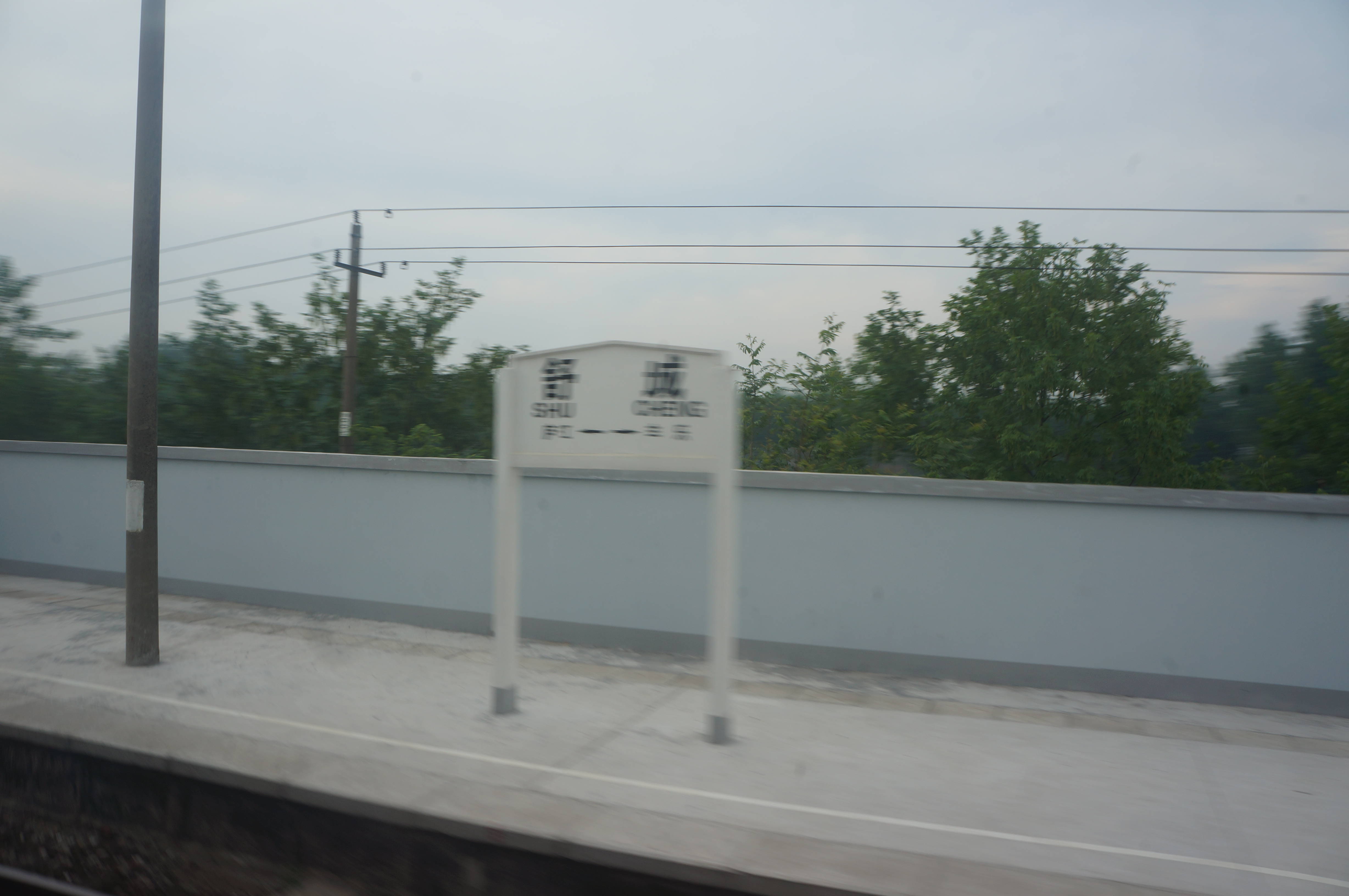 Next Station, Lujiang. Doors will open on the left